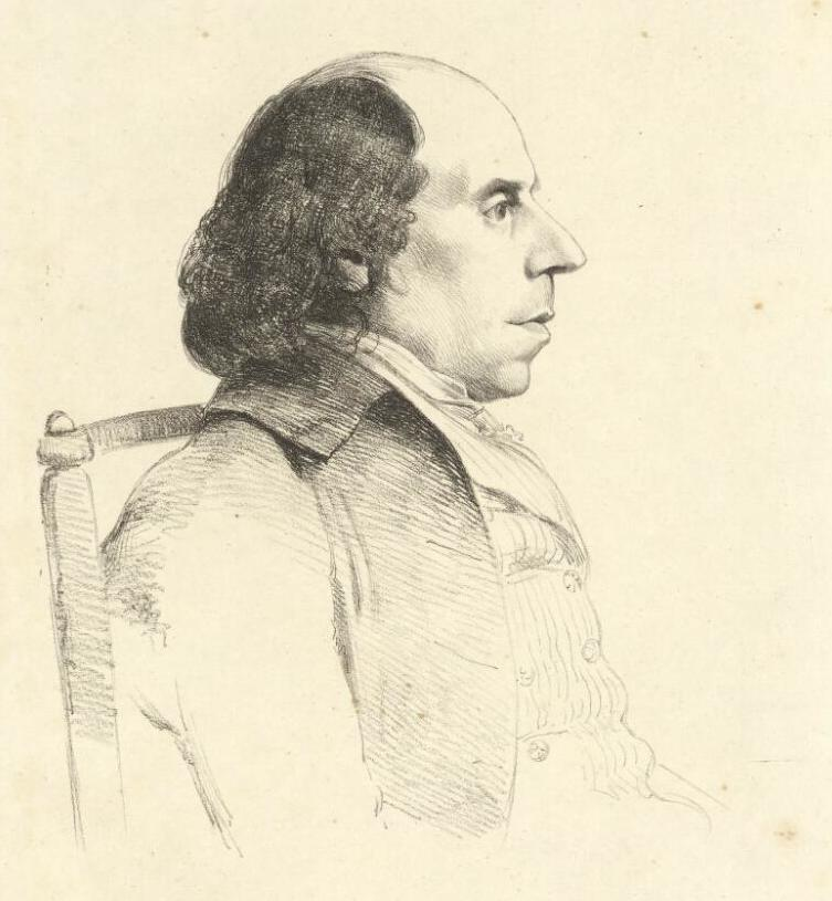 A portrait from the Welsh Portrait Collection at the National Library of Wales. Depicted person: John Flaxman – English artist